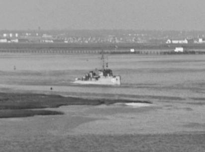 The U.S. Navy minesweeper USS Herald (AM-101) underway off Charleston, South Carolina (USA), on 18 December 1953.